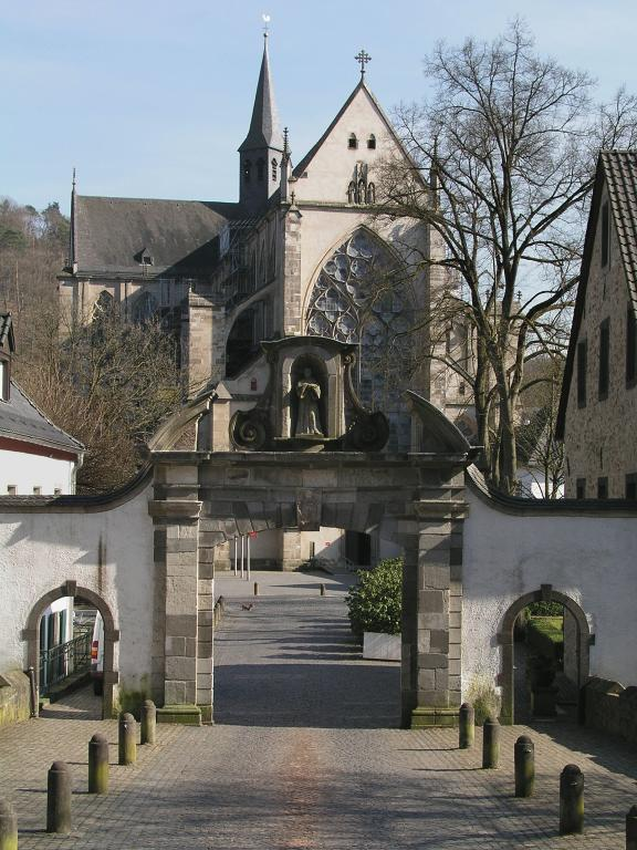 Cathedral Altenberg North-Rhine/Westphalia(Germany), photo 2003